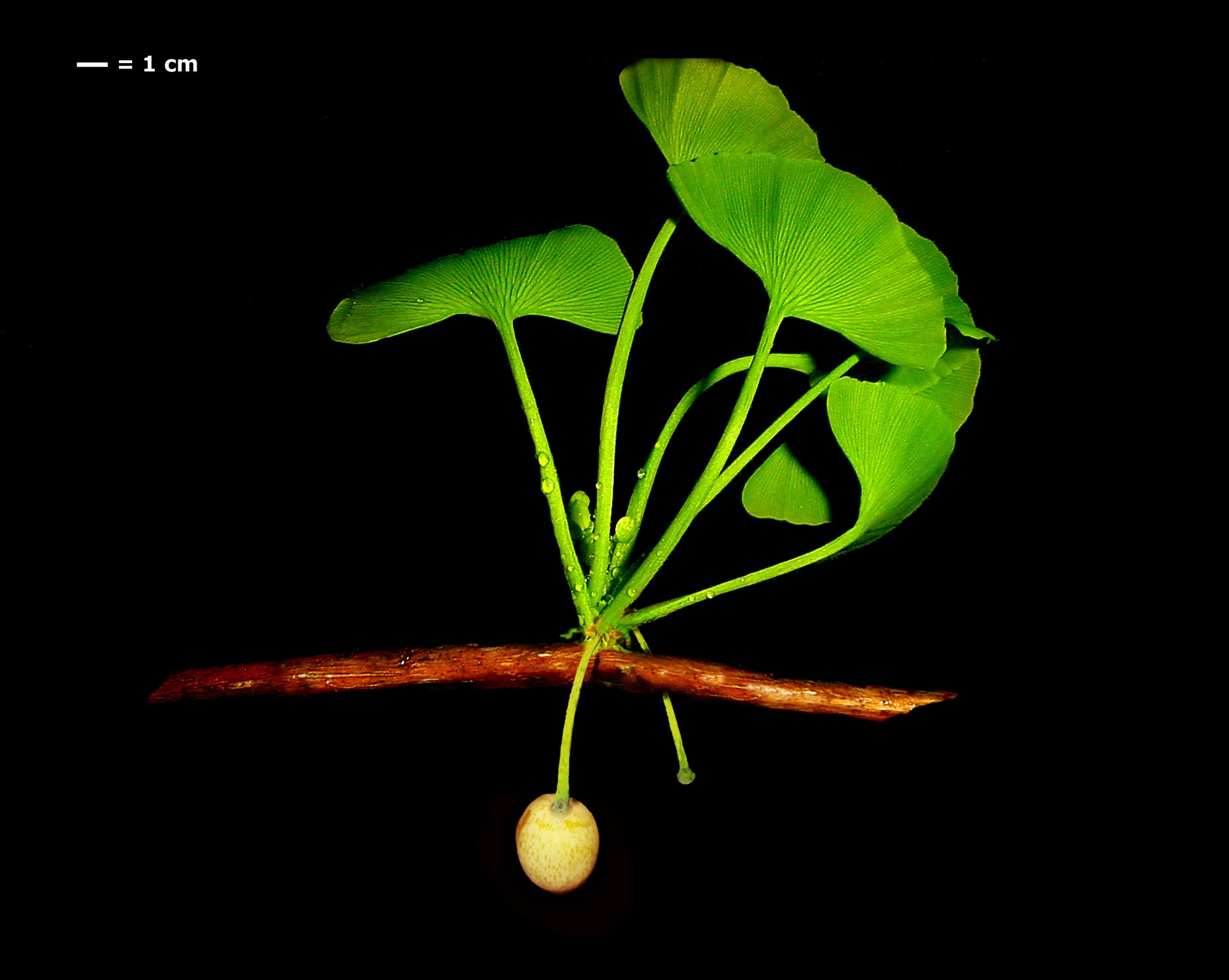 Ginkgo biloba by B M Begovic (2011)